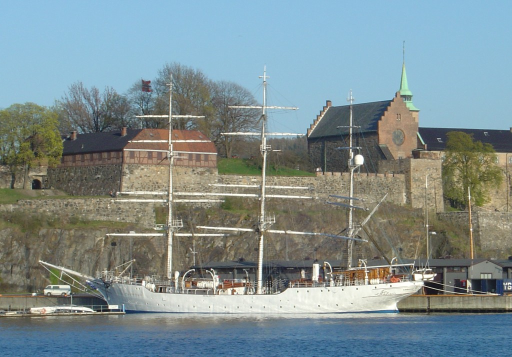 Photo of full rigged sail ship "Christian Radich", taken in Oslo, Norway, April 2005, by Ulf Larsen. Behind the vessel one can see the Akershus castle. I am NOT a good photographer, so DO feel free to take a better picture anytime and overwrite this picture!